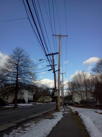 A pole route/line or something like it. This was taken on Central Street in Saugus, Massachusetts, USA